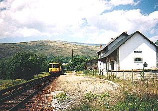 Train station of Ur-Les Escaldes, in the French commune of Ur